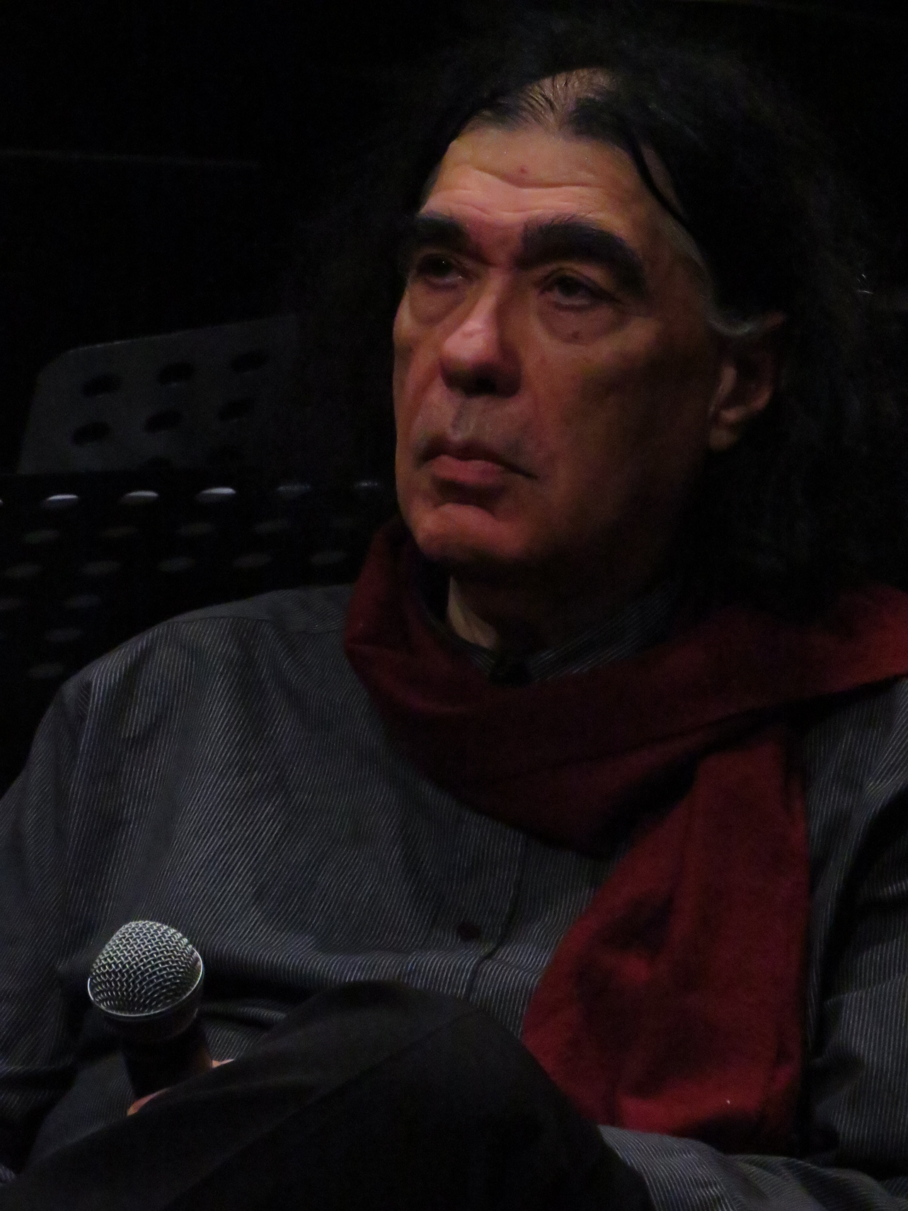 in Athens